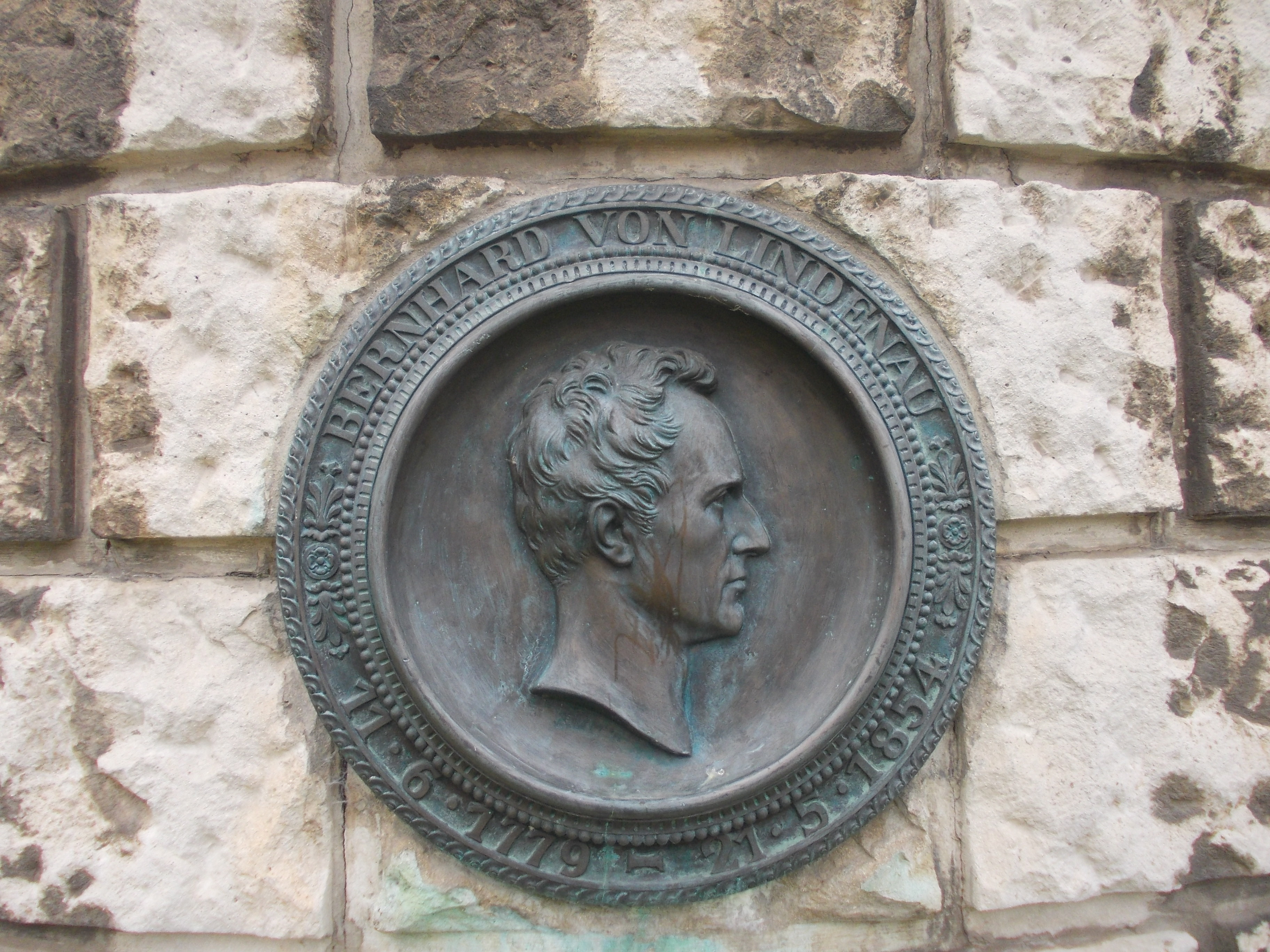 Memorial relief to Bernhard von Lindenau at Lindenau Museum in Altenburg (Thuringia)